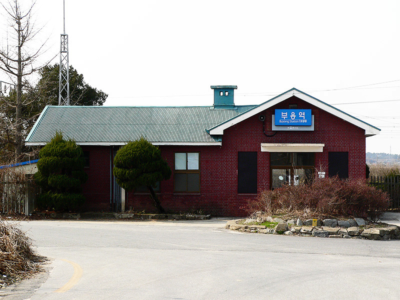 KORAIL Honam Line Boyong Station